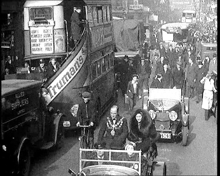 The Mayor of Marylebone and aviatrix Amy Johnson CBE drive down Great Portland Street in 1933 after the opening of the street's Gala Motor Show. Great Portland Street was then also known as the "Motor Row" of London. Image from British Pathé Ltd Newsreel Permitted use (see British Pathé e-mail clearance forwarded to wiki permissions e-mail address)